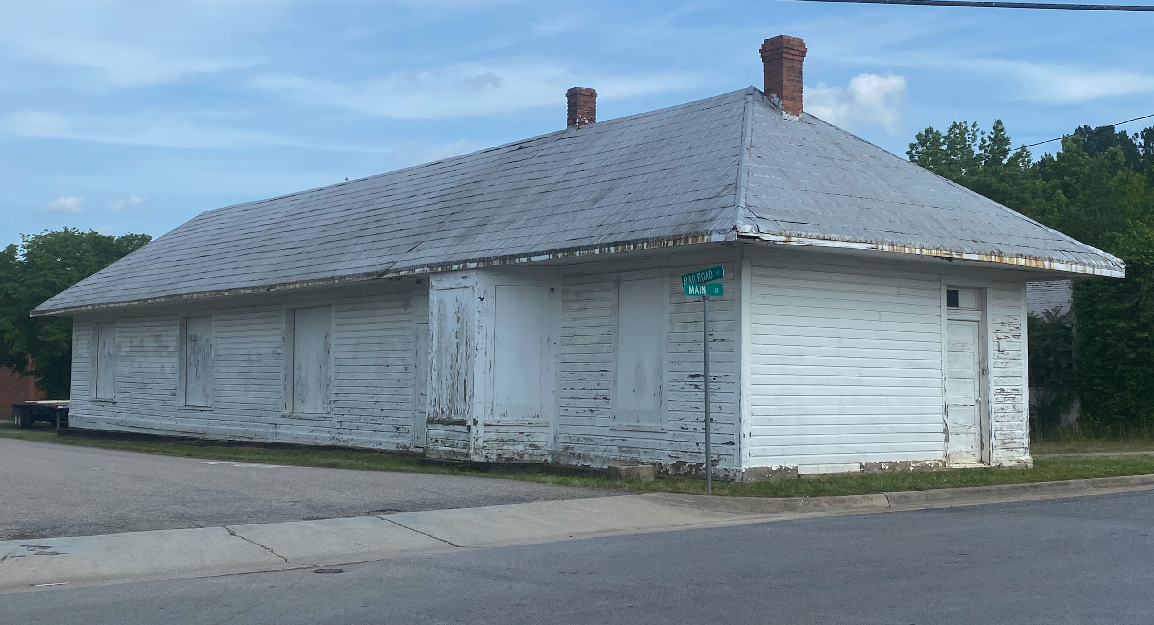 Brodnax Train Station on the Atlantic and Danville Railway improved by the Southern Railway Company in 1902. It is still standing in 2020.